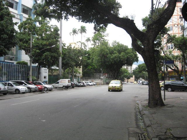 Haddock Lobo Street